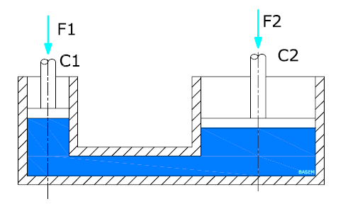 Principle of hydraulic press.